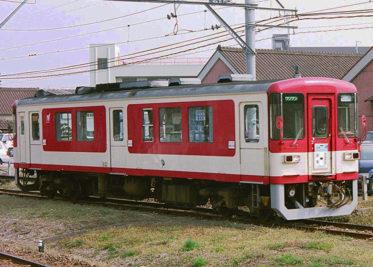 Nagoya-Railroad Makawa Line Kiha 30 Diesel railcar.